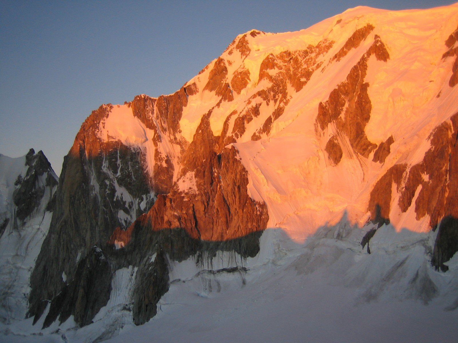 Mont Blanc - East side